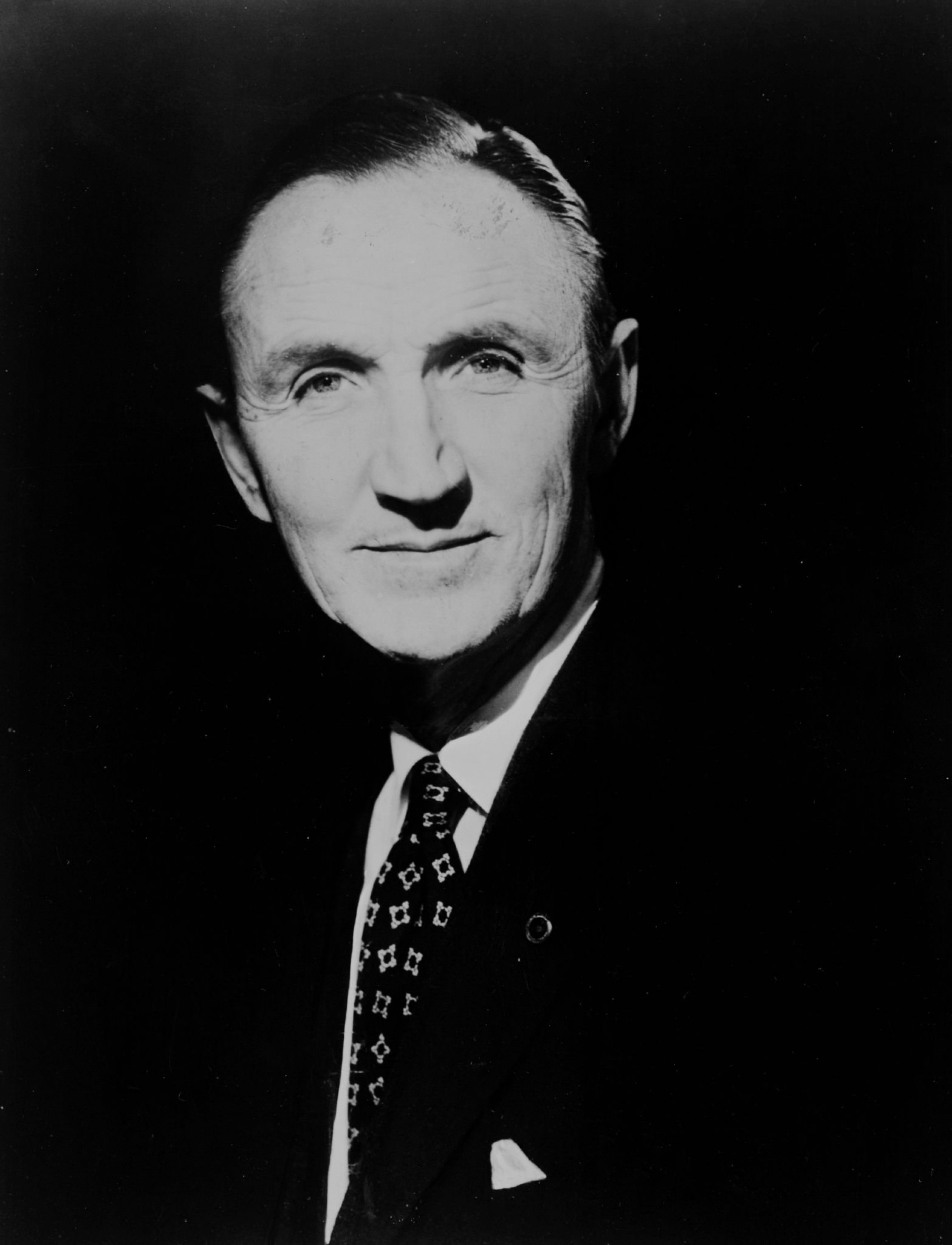 Michael Joseph Mansfield (March 16, 1903 – October 5, 2001) was an American Democratic politician and the longest-serving Majority Leader of the United States Senate, serving the state of Montana from 1961 to 1977